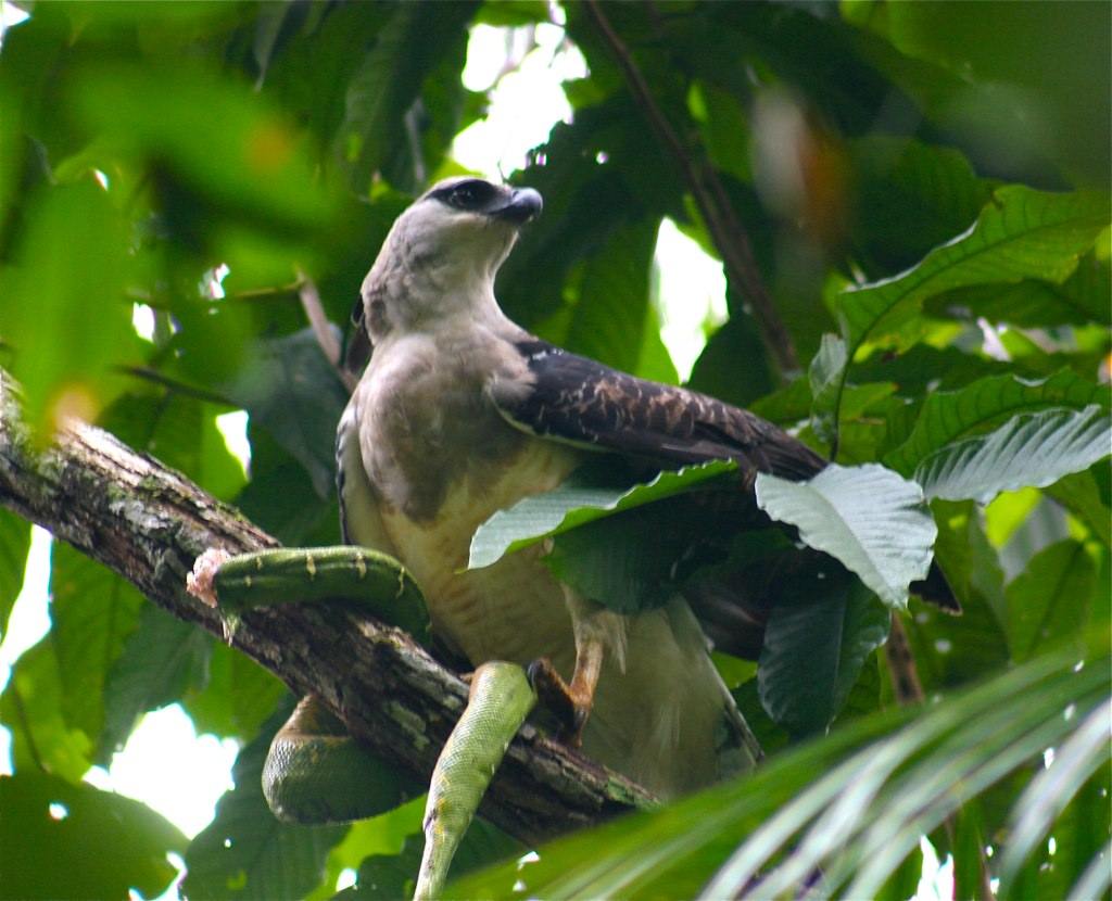 Crested Eagle (pale morph) eating a green snake, an emerald tree boa, which was too heavy for the bird to carry so the photographer was able to get right underneath the tree.